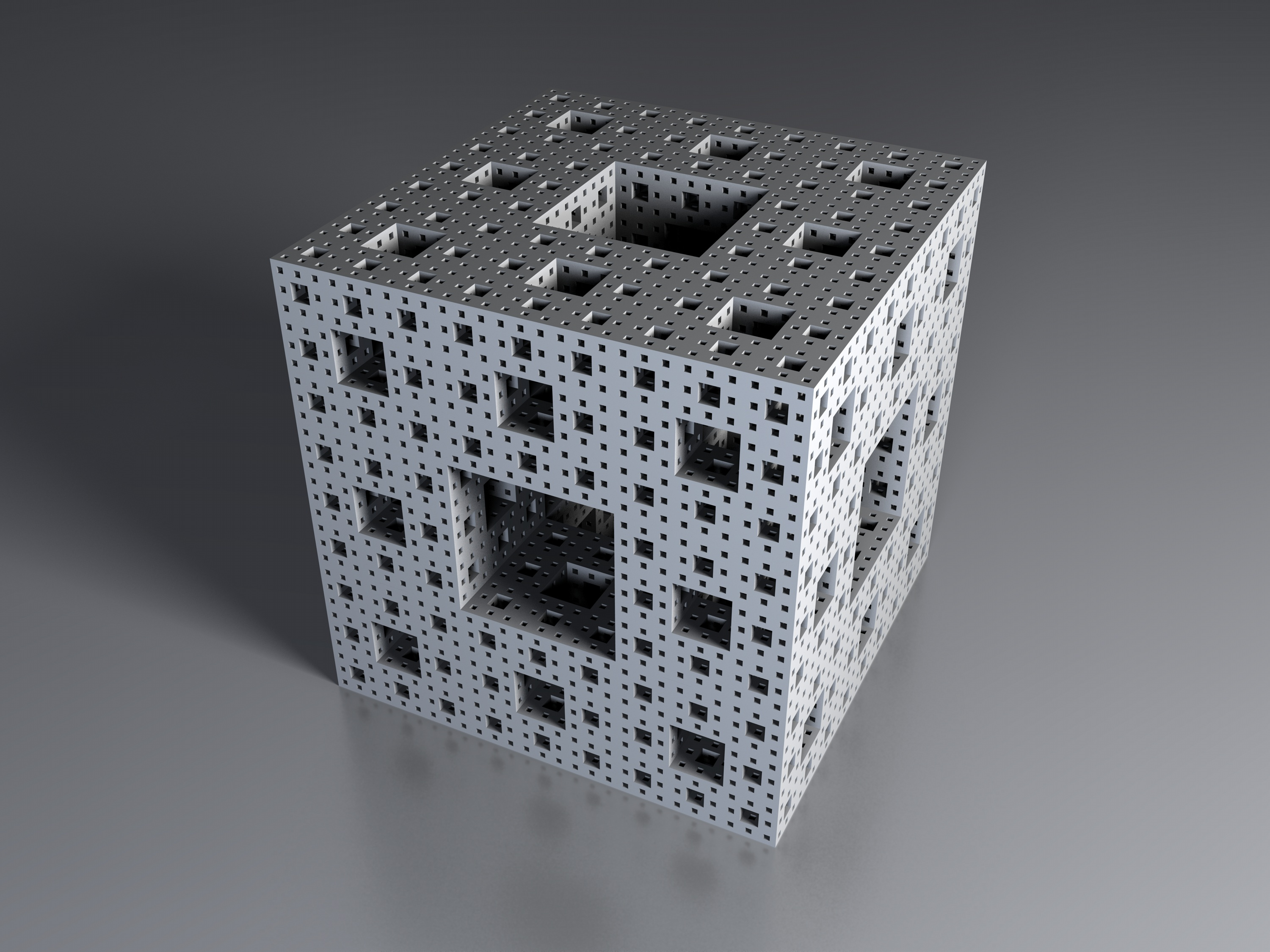 Menger Sponge after four iterations.